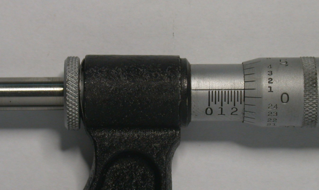 Micrometer